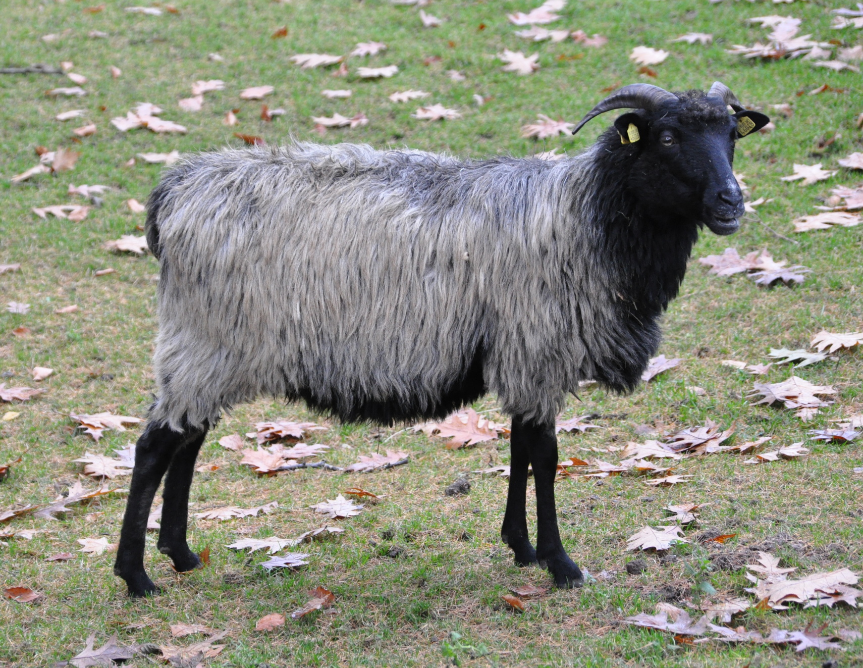 German Grey Heath (Ovis orientalis aries) in the Lüneburg Heath wildlife park, Germany.